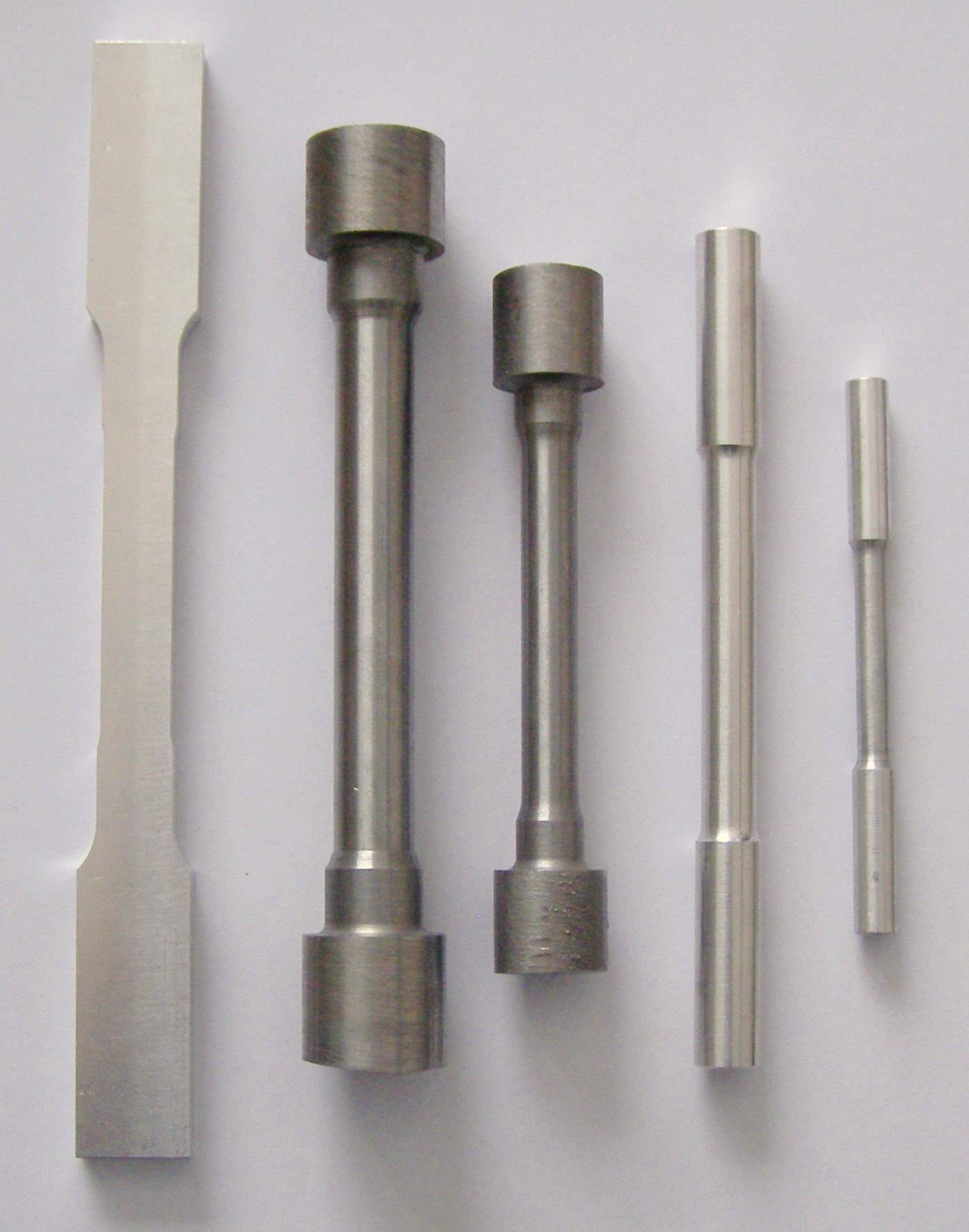 Different examples of steel and aluminium alloy specimens for tensile test